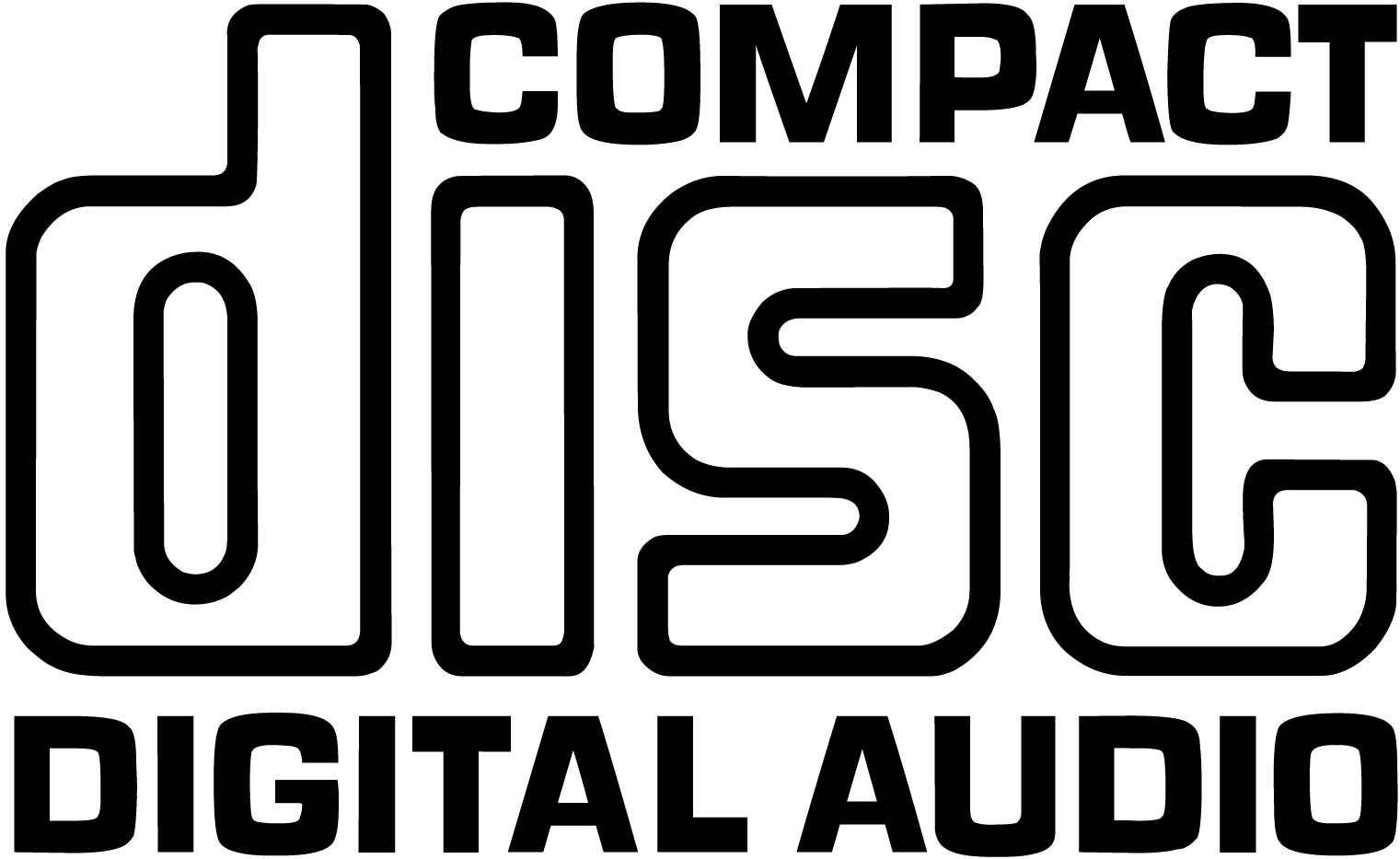 Red Book (audio CD standard) logo